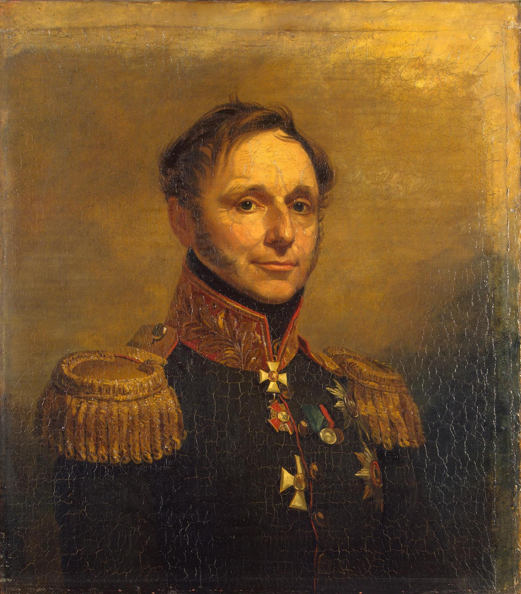 Count Peter Kirillovich Essen (1772 – 1844), Russian General of the Infantry.